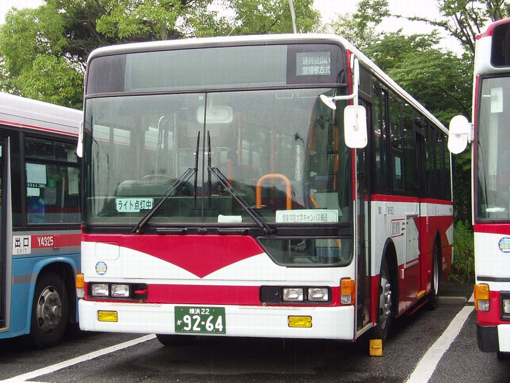 Yokohama Keikyu Bus 6820 Mitsubishi KC-MP717K at Nokendai Branch This picture is obtaining and photoing permission of the persons concerned.